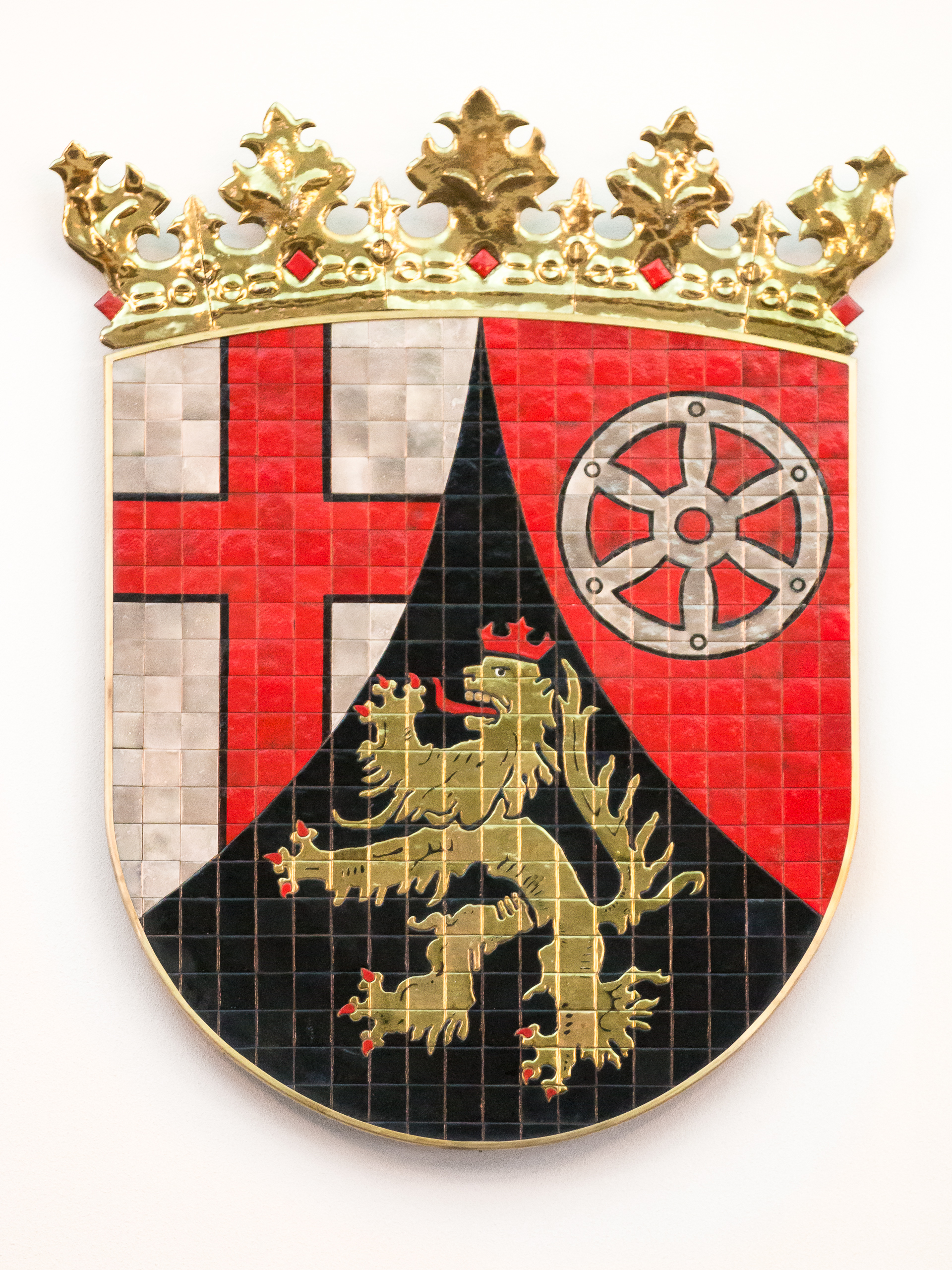 Coats of arms of Rhineland-Palatinate in the plenary hall of the Landtag of Rhineland-Palatinate